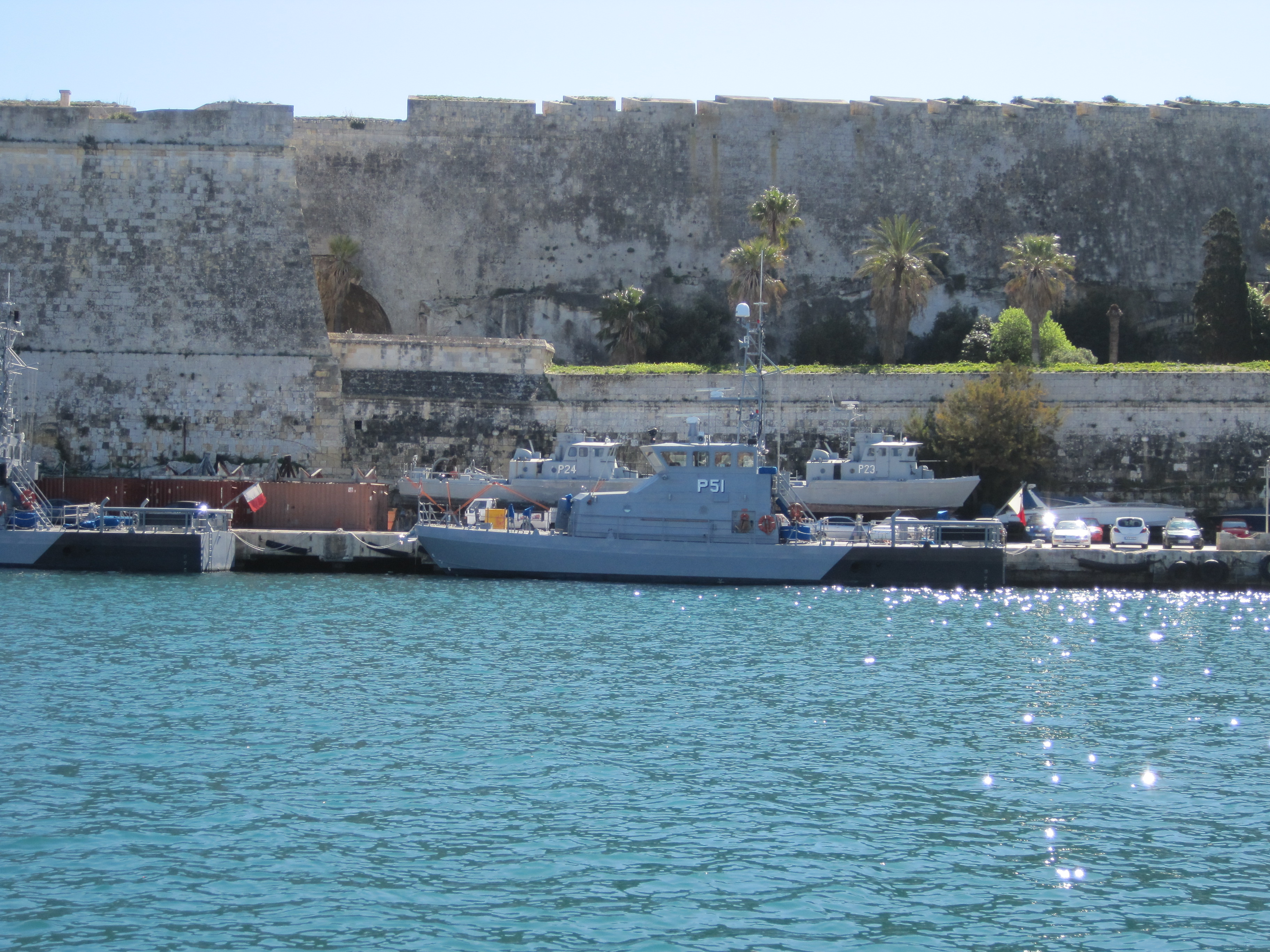 P24 American military river boat, as used in Vietnam. One of the last of this kind being returned back to USA to be displayed in a museum